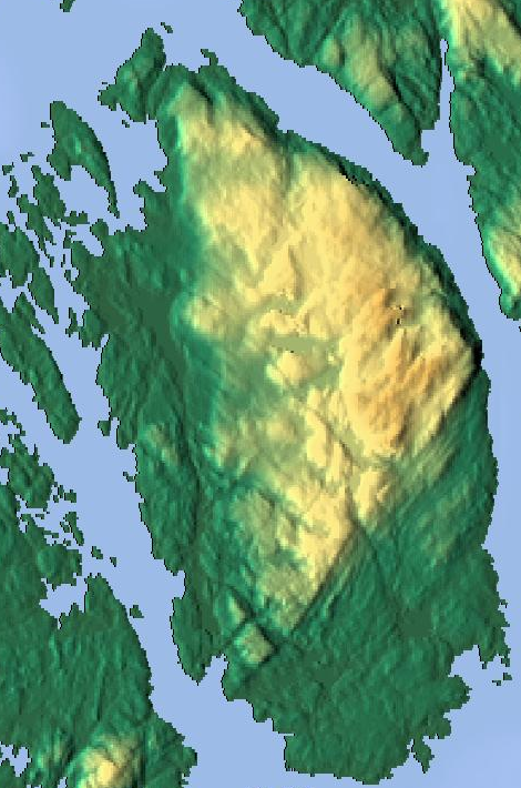 Relief map of Stord island